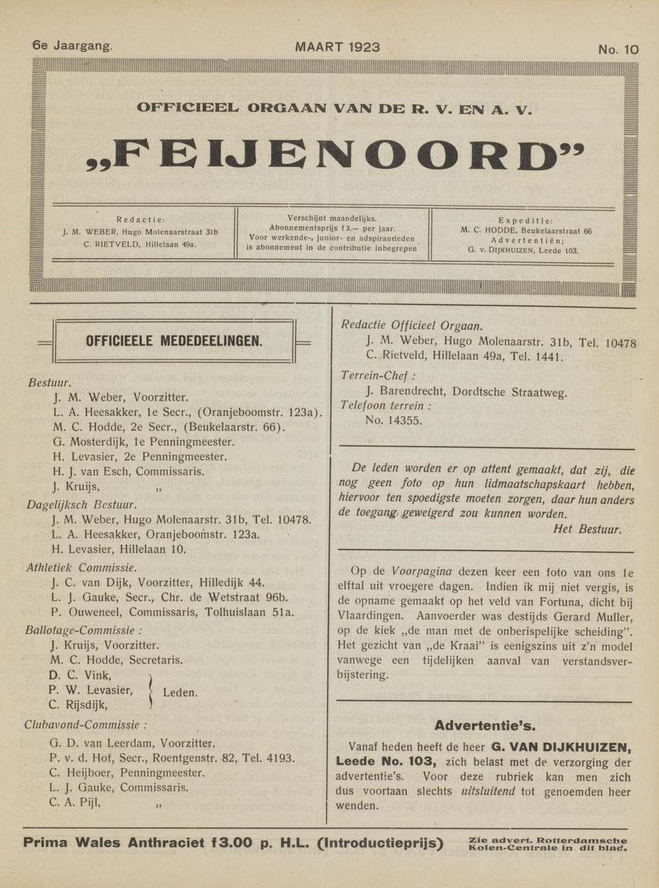 Front page of the Feyenoord magazine, March 1923 edition.